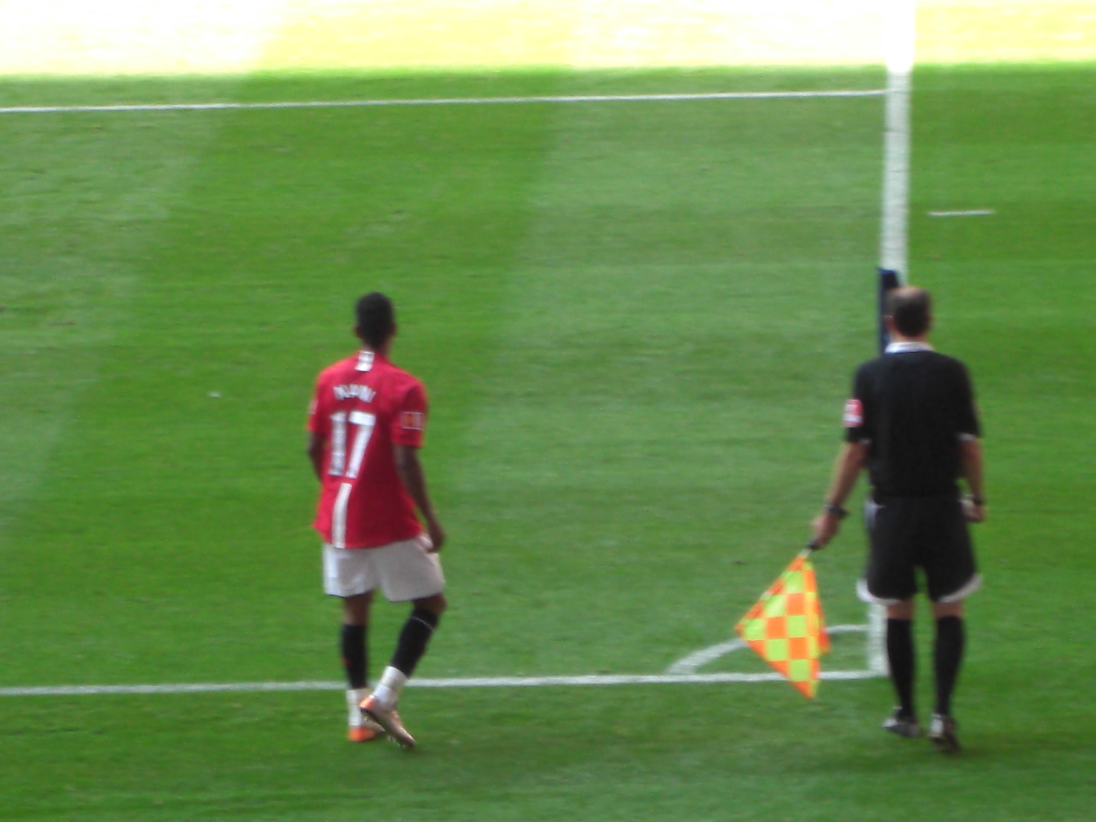 Manchester United vs Chelsea 1-1 (3-0 after panalties) - Community Shield at Wembley